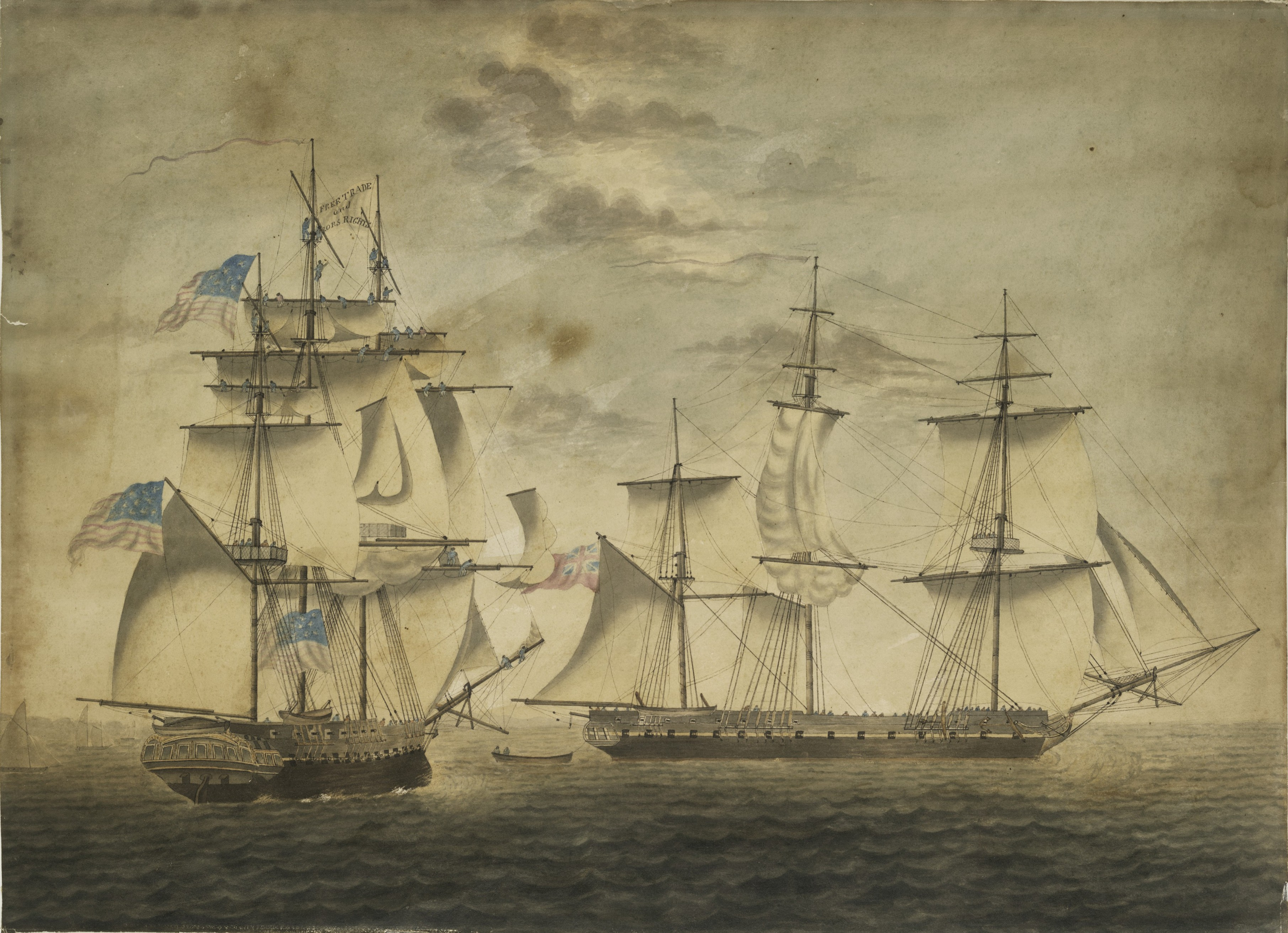 Stokes 1813-F-1 Artist is probably Robert Dodd. Drawing bears inscription to P. B. V. Broke, his officers, seamen and marines. Drawing depicts June 1, 1813. Deák 276